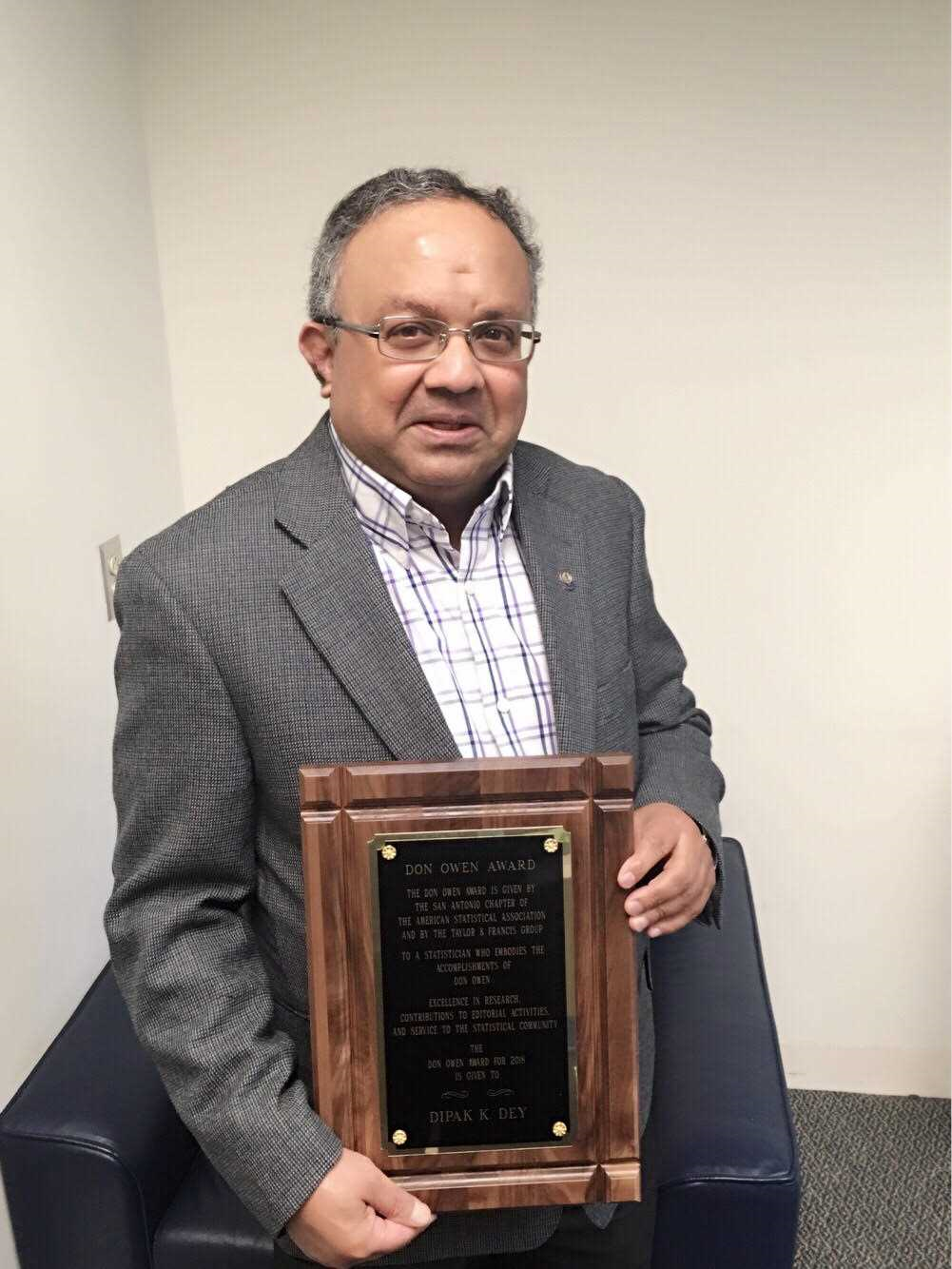 Dipak K. Dey received Don Owen Award in 2018; the picture was taken at the Department of Statistics of University of Connecticut, Storrs, CT